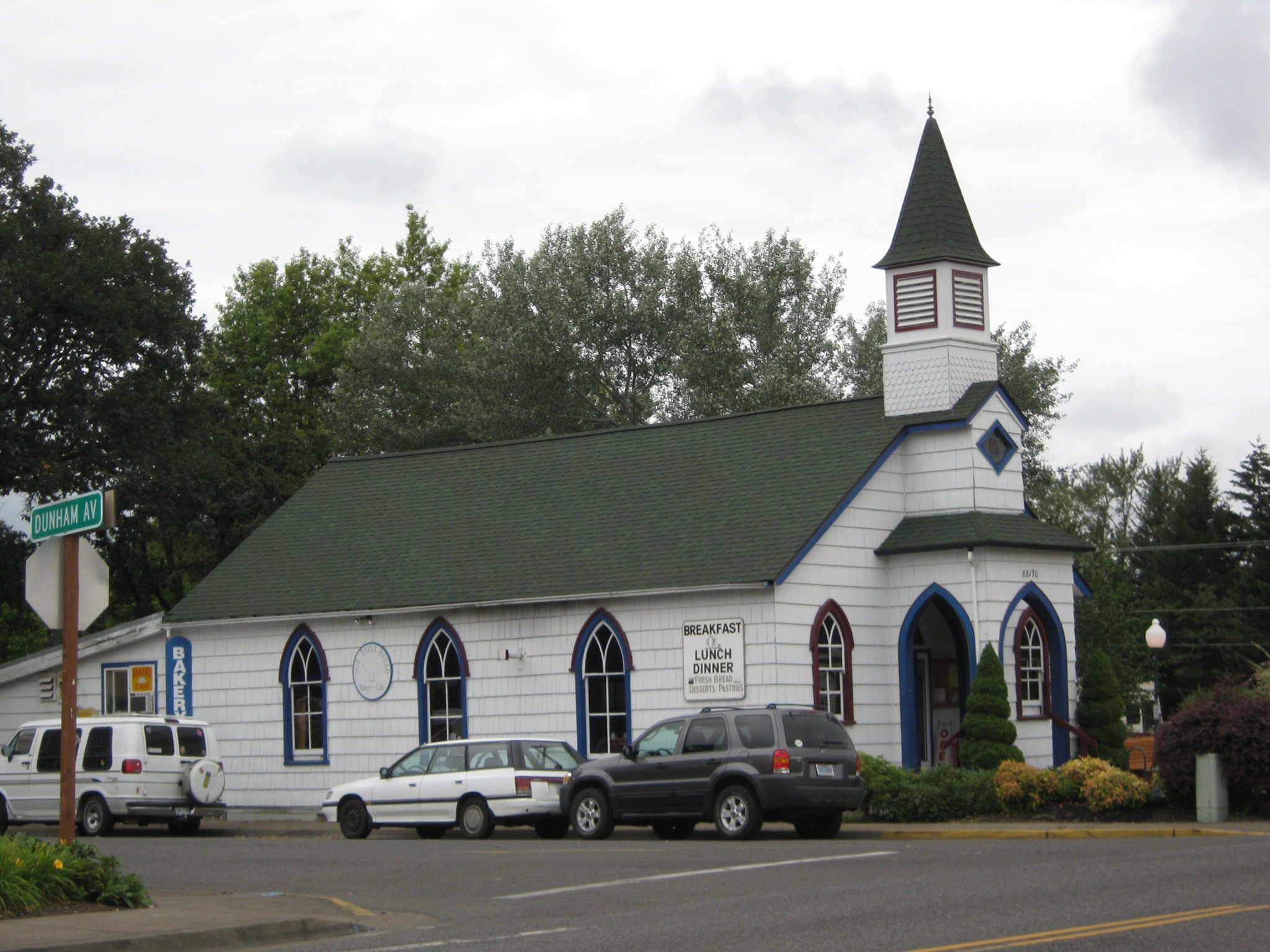 Our Daily Bread, a former church in Veneta, Oregon, USA, now a café and bakery.